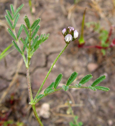 Astragalus didymocarpus var. didymocarpus. Santa Monica Mountains National Recreation Area, California, USA. Taken at Wildwood Park. NPS photo, no copyright.